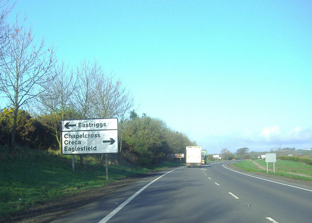 Road sign on the A75 This is a road sign on the A75 giving directions to local villages.